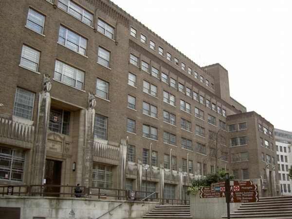 North Block, Guildhall, City of London by Sir Giles Gilbert Scott. Taken by User:Dbiv on March 6, en:2005.